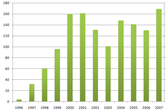 Sales-courveof Embraer